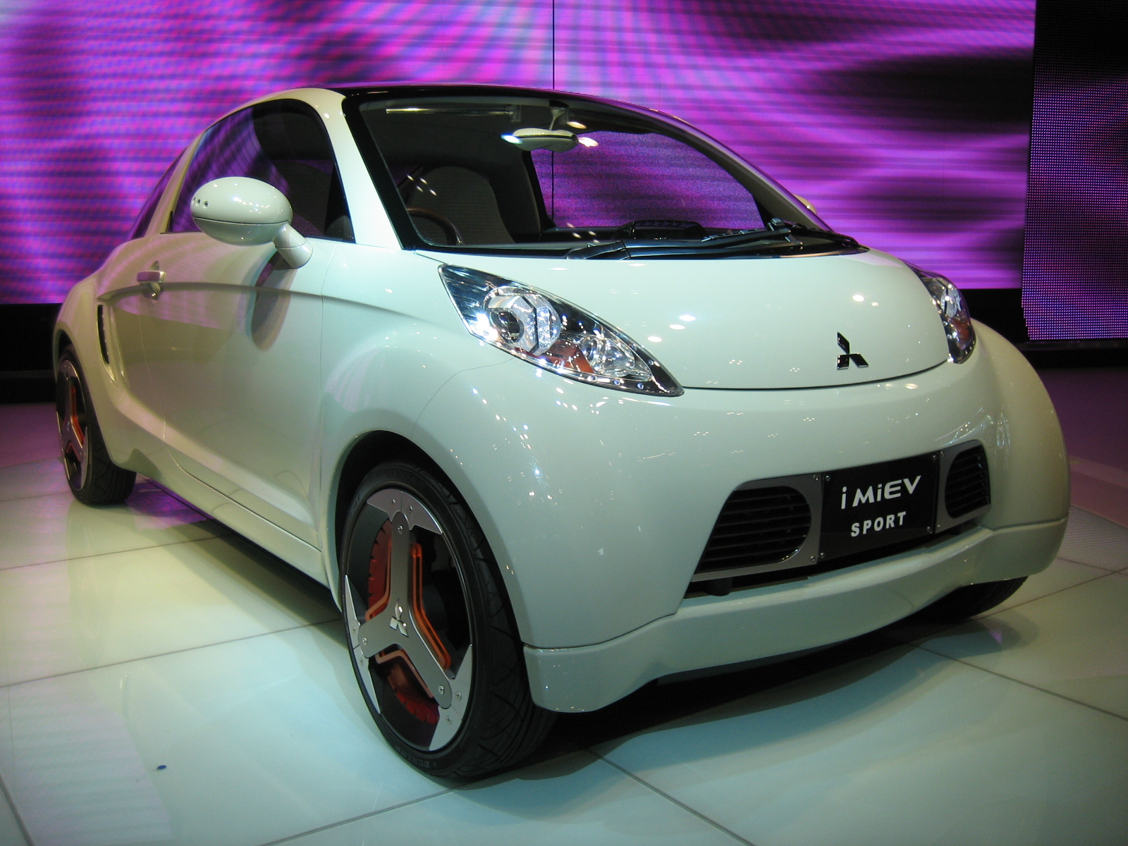 Mitsubishi iMiEV sport in Tokyo motor show